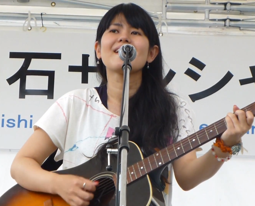 A Japanese singer-songwriter Satoko Ishimine performing at Hatsuishi Sunshine Golf in Chiba, Japan on August 17, 2012.